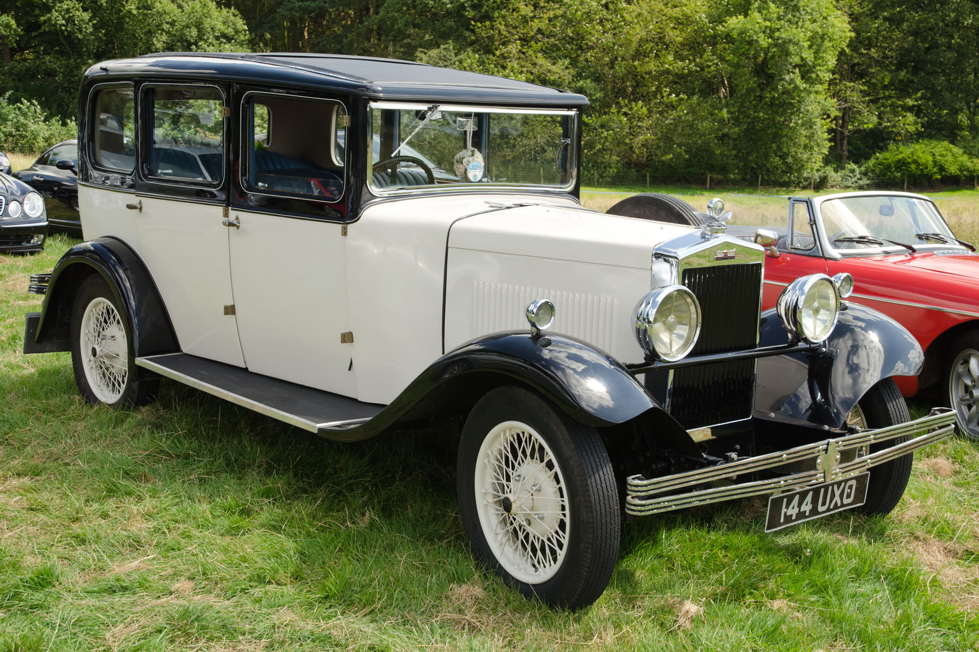 1930 Morris Oxford Six Saloon (DVLA) first registered 4 April 1930, 1489cc ?? Capesthorne Hall Classic Car Show 27/07/2014